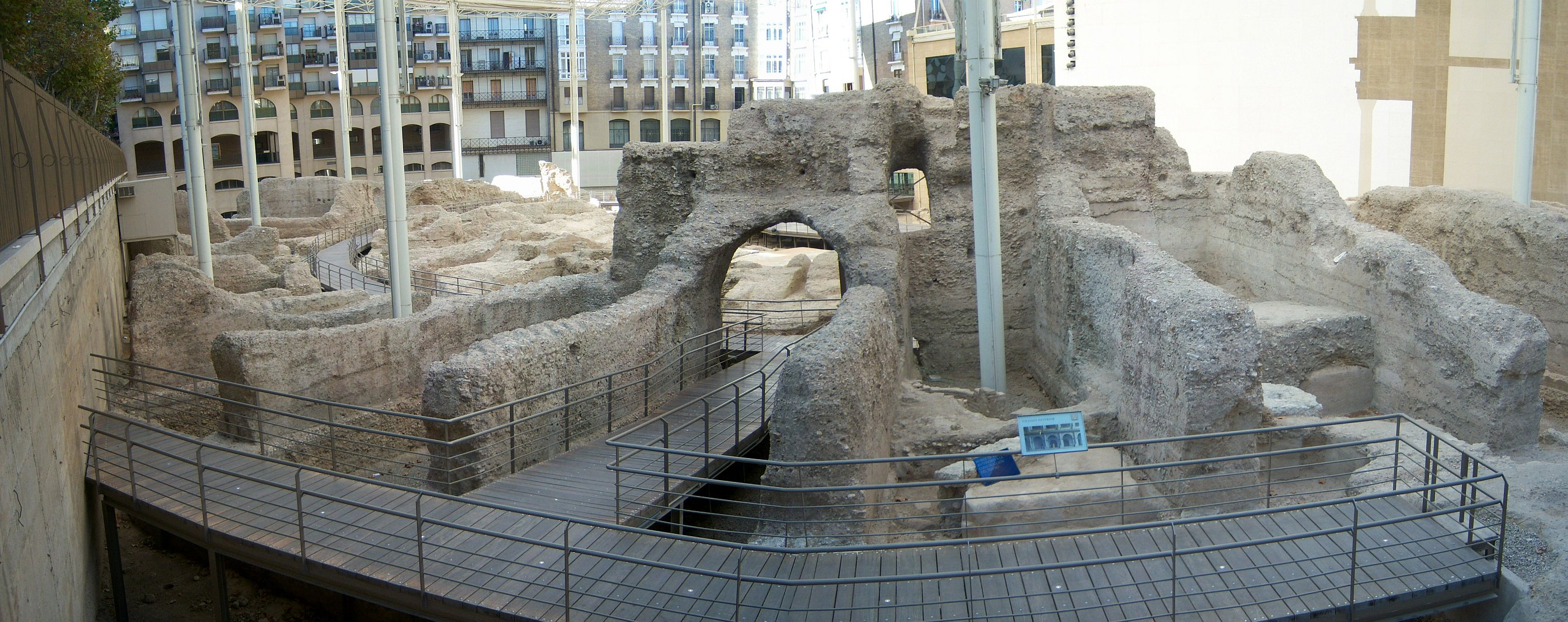 Remains of Cesaraugusta's Ancient Roman theatre, in the modern Saragossa (Spain). Constructed with opus caementicium, we can appreciate one of its vomitoria.